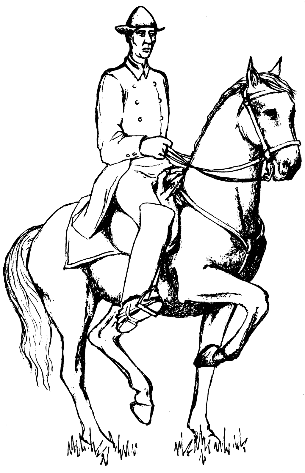 Illustration of dressage competitor.